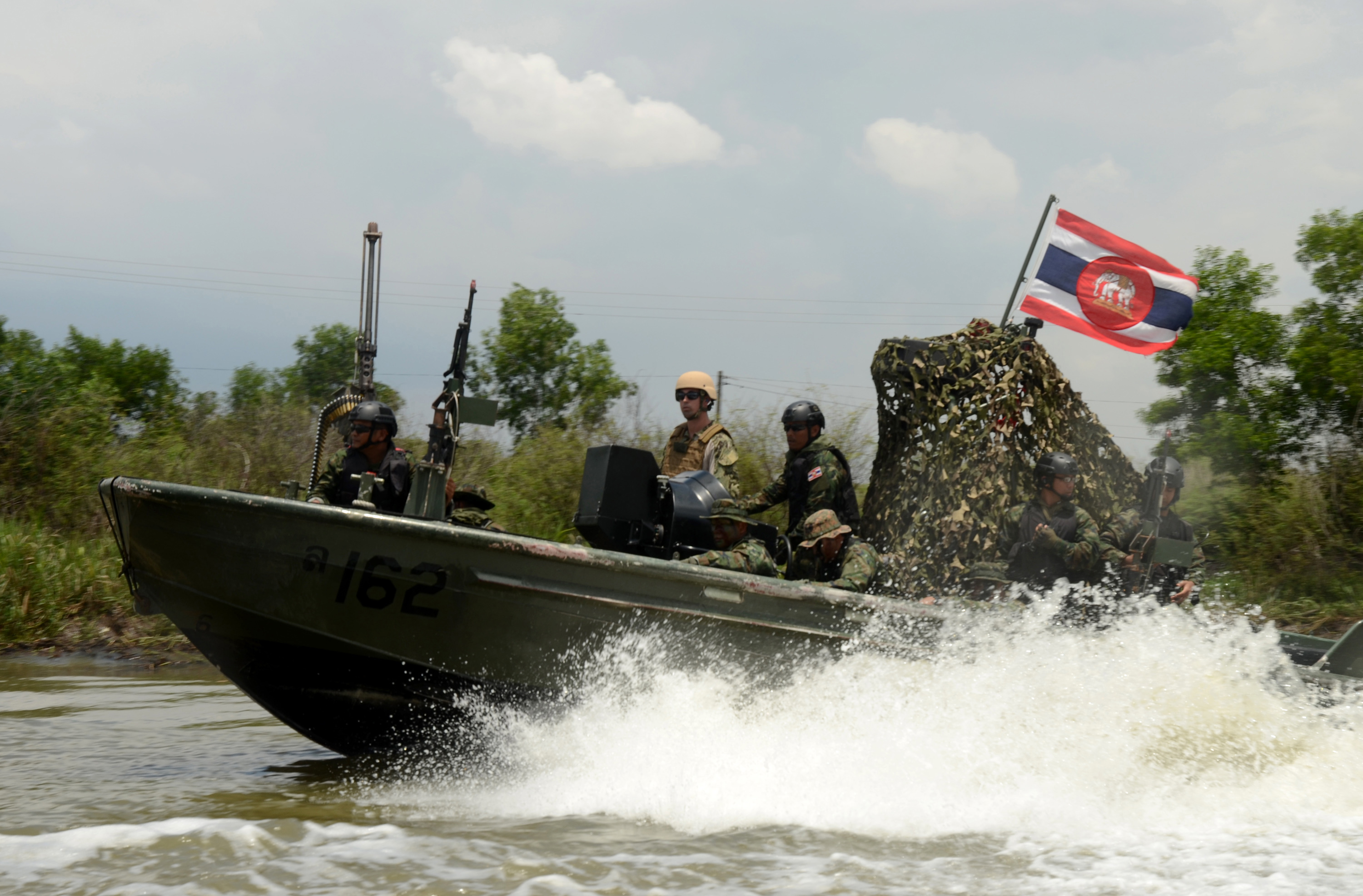 U.S. Sailors assigned to Security Forces Assistance Detachment, Maritime Civil Affairs and Security Training Command ride in riverine boats with Thai marines and sailors in the Nakhon Nayok River during Cooperation Afloat Readiness and Training (CARAT) 2013 in Thailand June 8, 2013. CARAT is a series of bilateral exercises held annually in Southeast Asia to strengthen relationships and enhance force readiness.